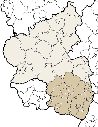 the Pflaz